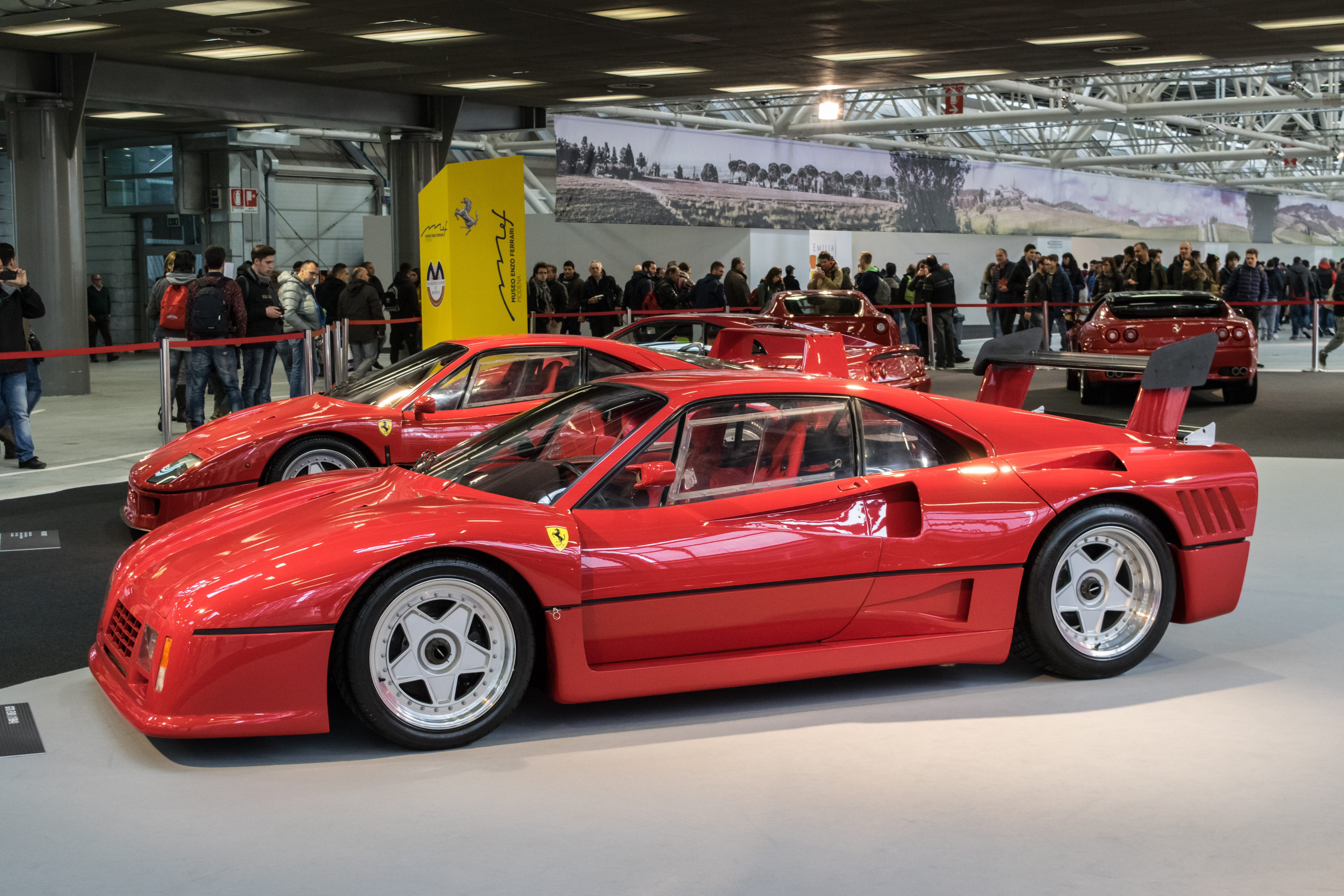 Ferrari GTO EVO and F40